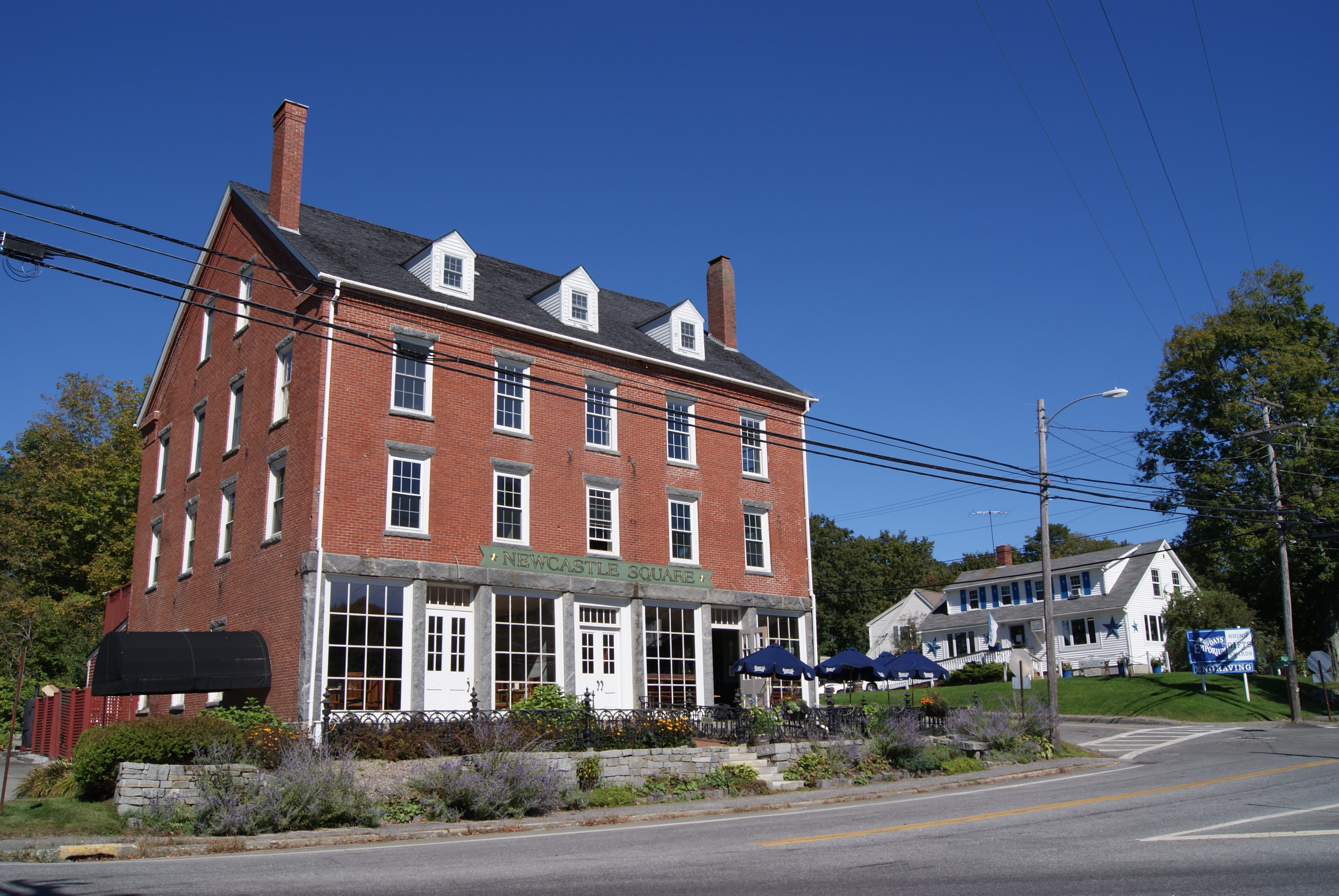 Newcastle Publick House at 52 Main Street, Newcastle, Maine, USA.